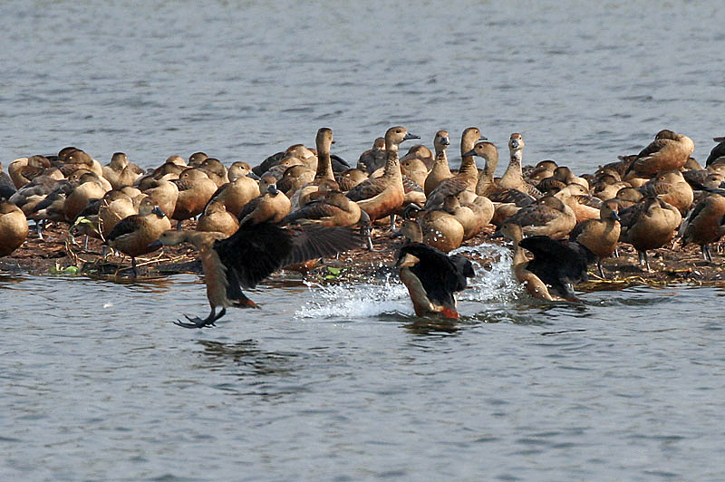 Lesser-whistling Duck (Dendrocygna javanica) in Kolkata, West Bengal, India.